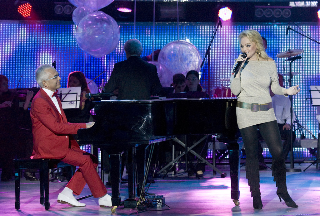 “XIX International Arts Festival The Slavic Bazaar in Vitebsk”. Singer Larisa Dolina and composer and producer Kim Breitburg at the concert Two sisters - Belarus and Russia, which was held on the Union State Day at the XIX International Arts Festival The Slavic Bazaar in Vitebsk.